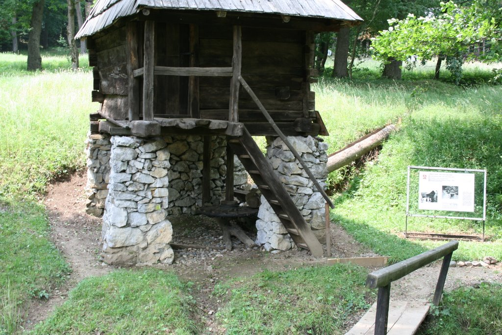 horizontal watermill from Topleț (Banat region) in the ASTRA open-air museum, Sibiu